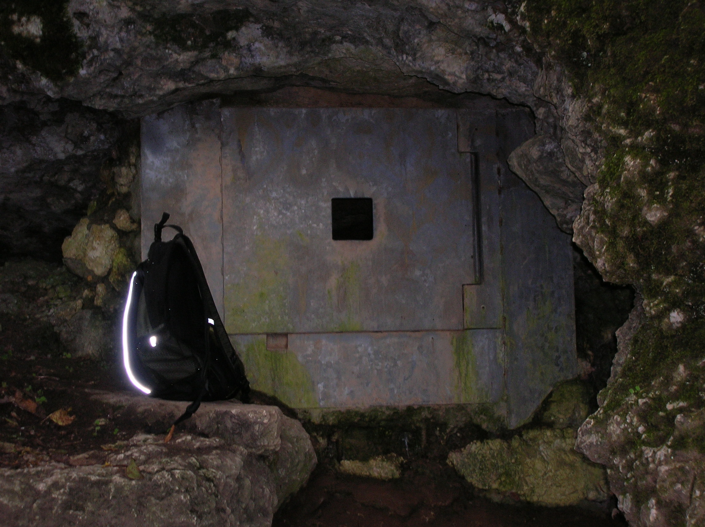 Exit of the Solymári-ördöglyuk (Solymár Cave), Solymár, Hungary.